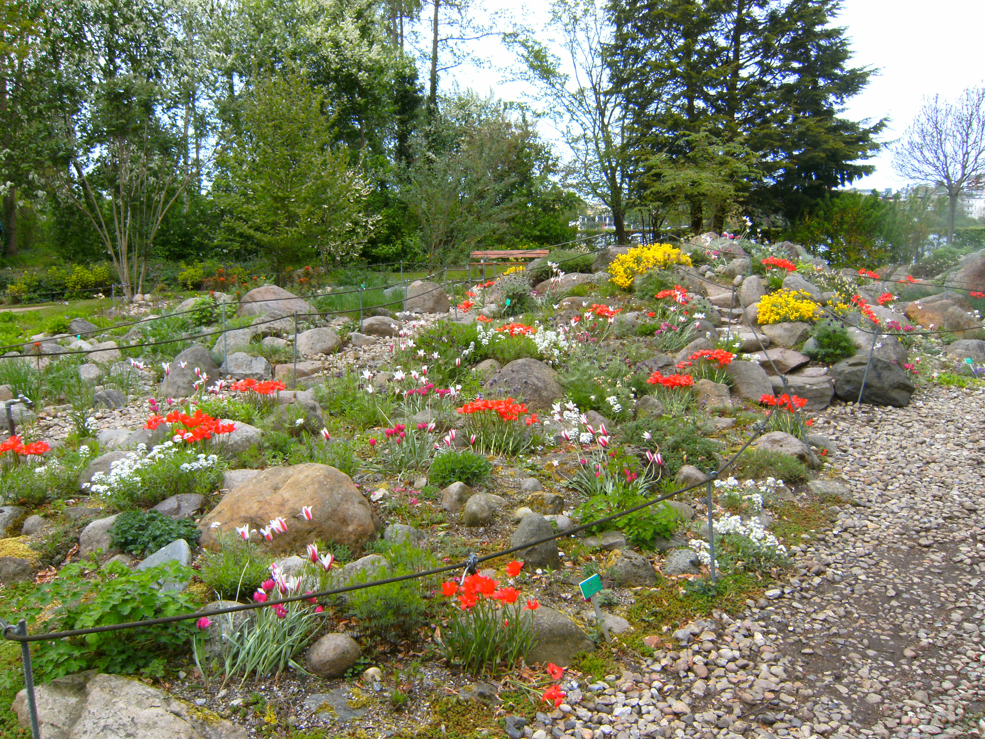 Garden for pupils (Schulgarten) in Lübeck, Germany. Rock garden.